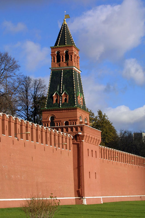 Moscow, the Kremlin. Vtoraya Bezymyannaya Tower